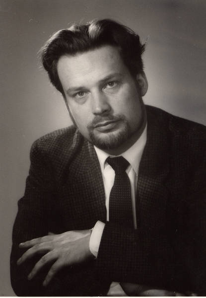 Photograph of the Finnish composer Usko Meriläinen (1930–2004). Another photograph from the same series was published in Suomen säveltäjiä (1965).